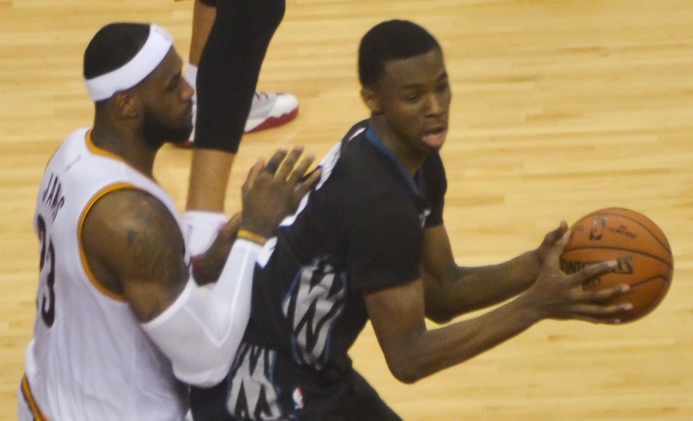 Andrew Wiggins of Minnesota Timberwolves guarded by LeBron James of Cleveland Cavaliers